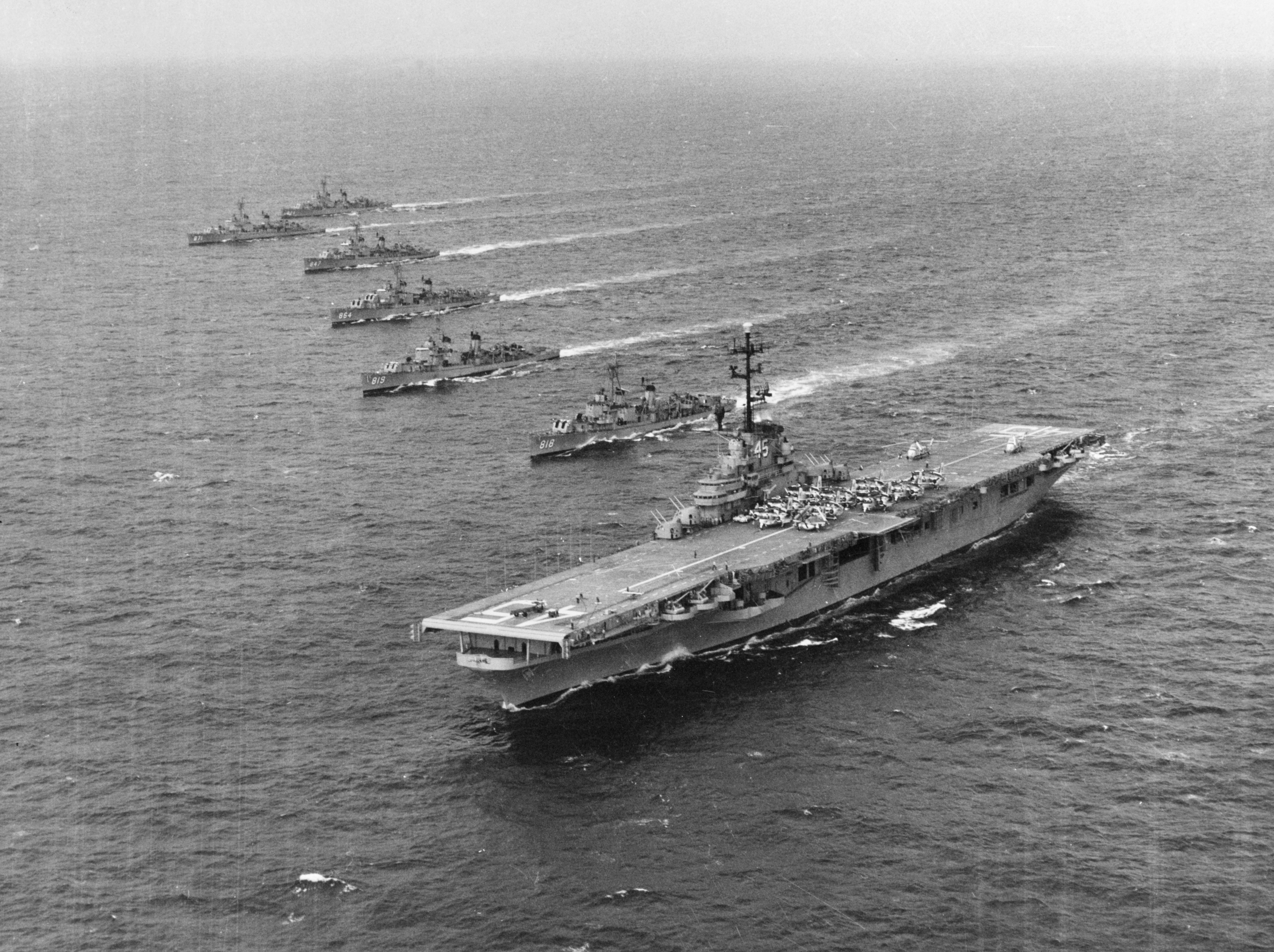 The U.S. Navy aircraft carrier USS Valley Forge (CVS-45) steaming in formation with Destroyer Squadron 36, during anti-submarine exercises of the U.S. Atlantic Fleet's Task Group ALFA, 6 November 1958. The destroyers are (from top): USS Basilone (DDE-824); USS Damato (DDE-871); USS Robert L. Wilson (DDE-847); USS Harold J. Ellison (DD-864); USS Holder (DDE-819) and USS New (DDE-818).